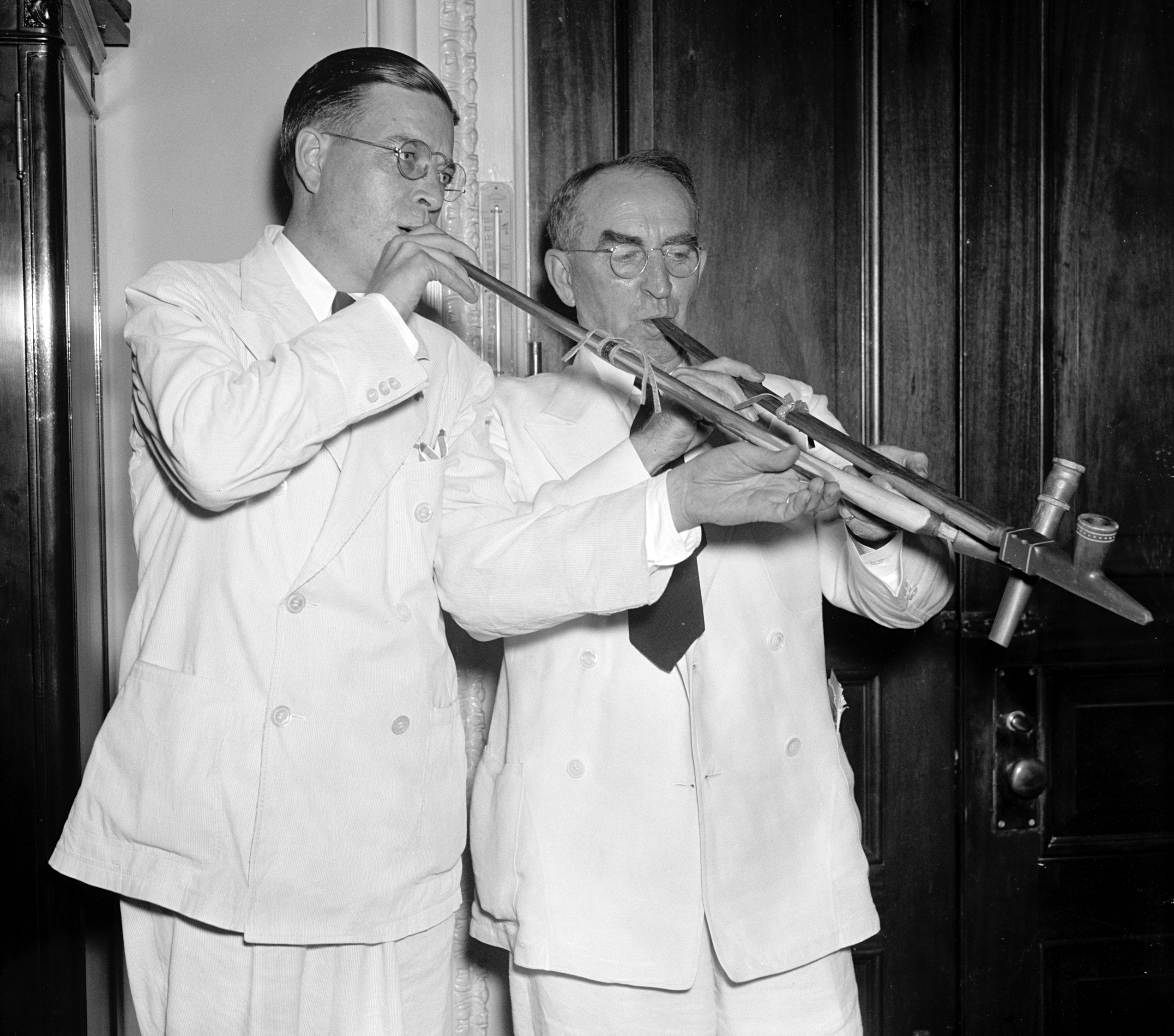 Paul John Kvale (left), US Representative from Minnesota, smokes a pipe of peace with William B. Bankhead, Speaker of the House